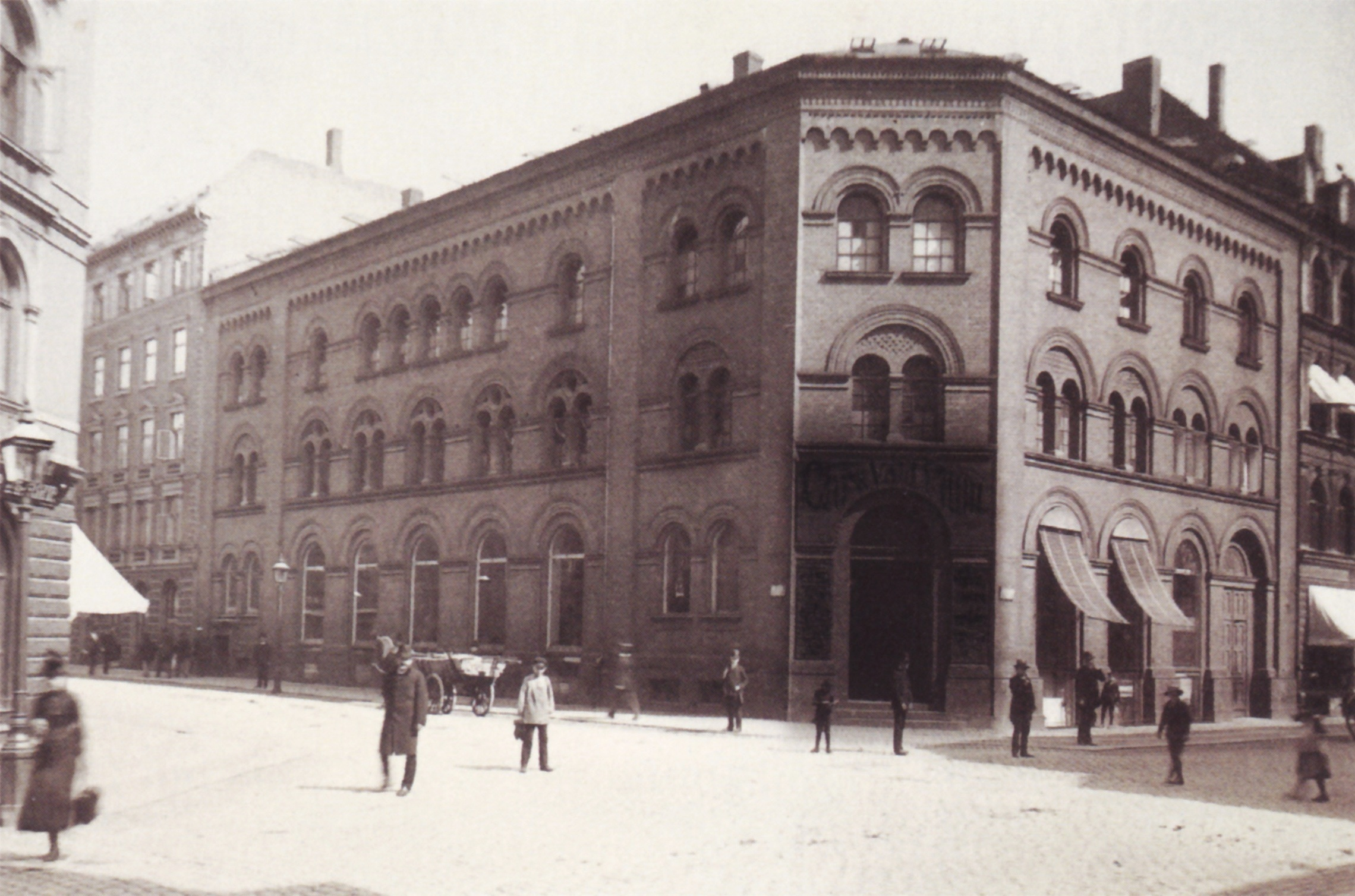 The Hirschsprung Tobacco Factory was built by the company A.M. Hirschsprung & Sønner (A.M. Hirschsprung & Sons) in 1866 in Tordenskjoldsgade in Copenhagen.